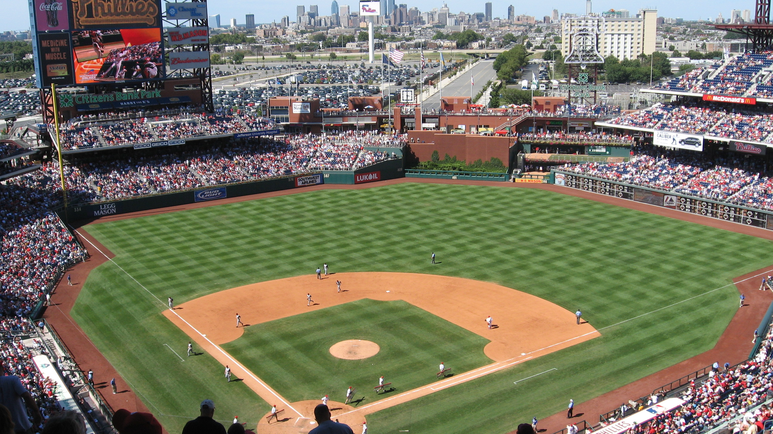 Field view from the 300 level 03:28, 11 March 2007 . . Phillyfan0419 . . 2592×1456 (1,596,180 bytes)